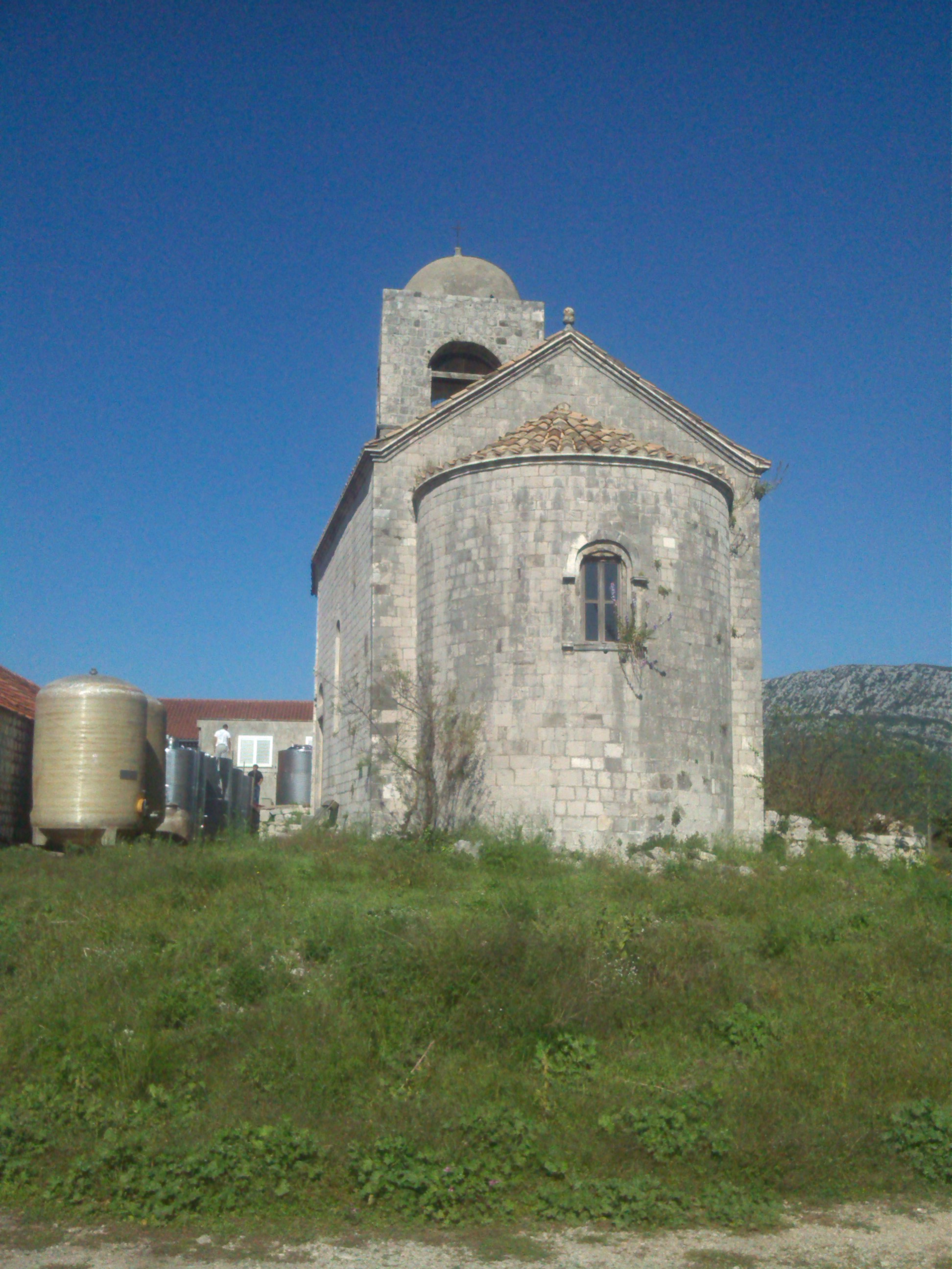 Our Lady of Lužine church in Ston